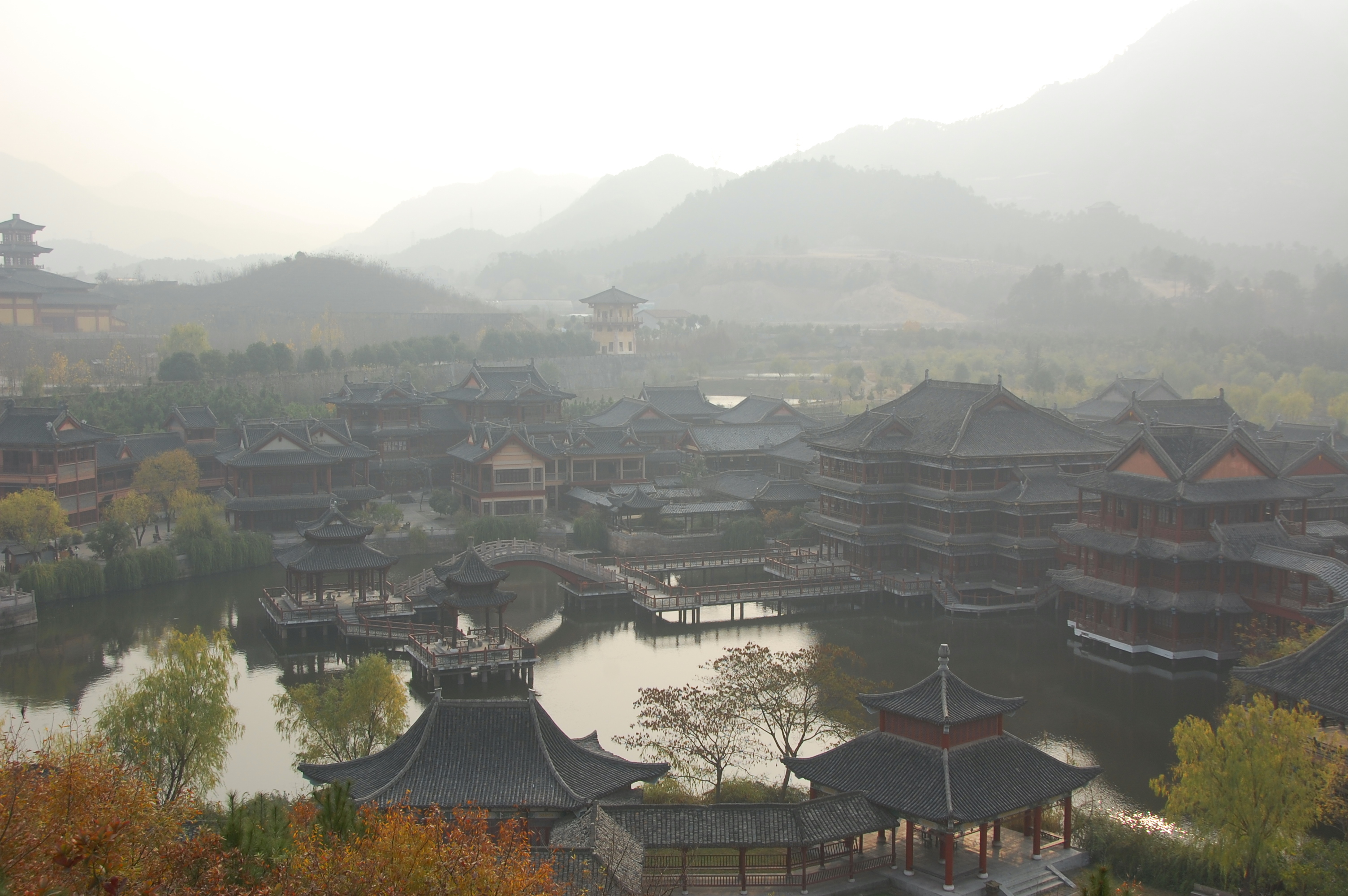 A material reconstitution of the cityscape depicted in the scroll Along the River During the Qingming Festival, at Hengdian World Studios